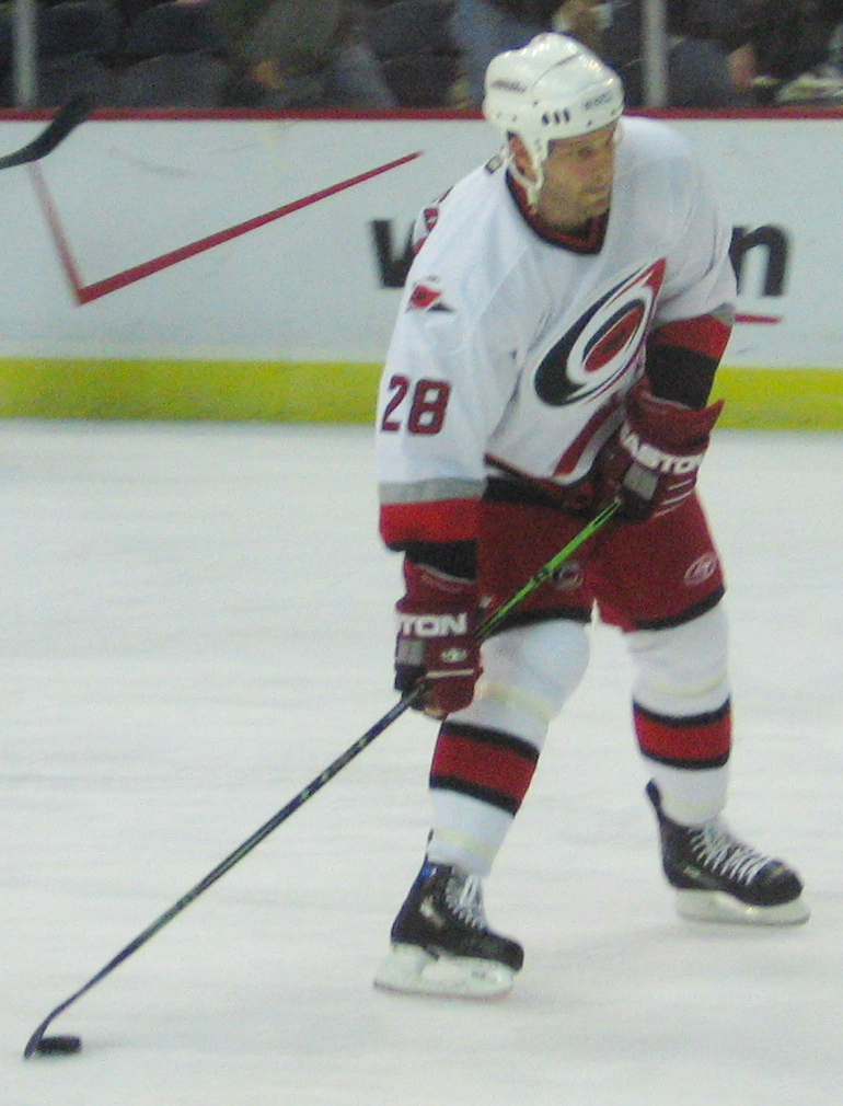 Andrew Hutchinson; Taken before the Hurricanes' game against the Washington Capitals on January 27, 2007.